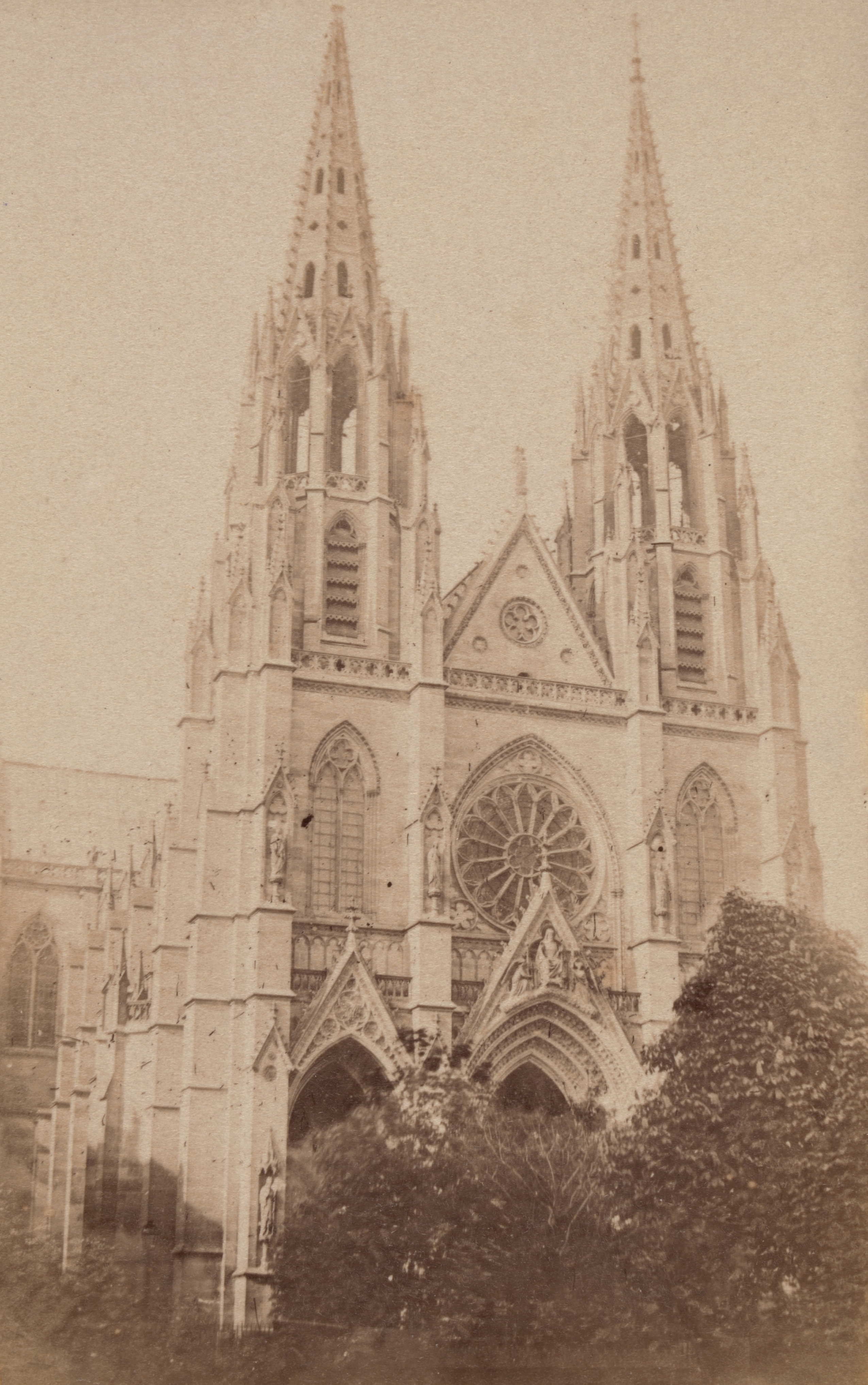 Basilique Sainte-Clotilde, Paris, France.